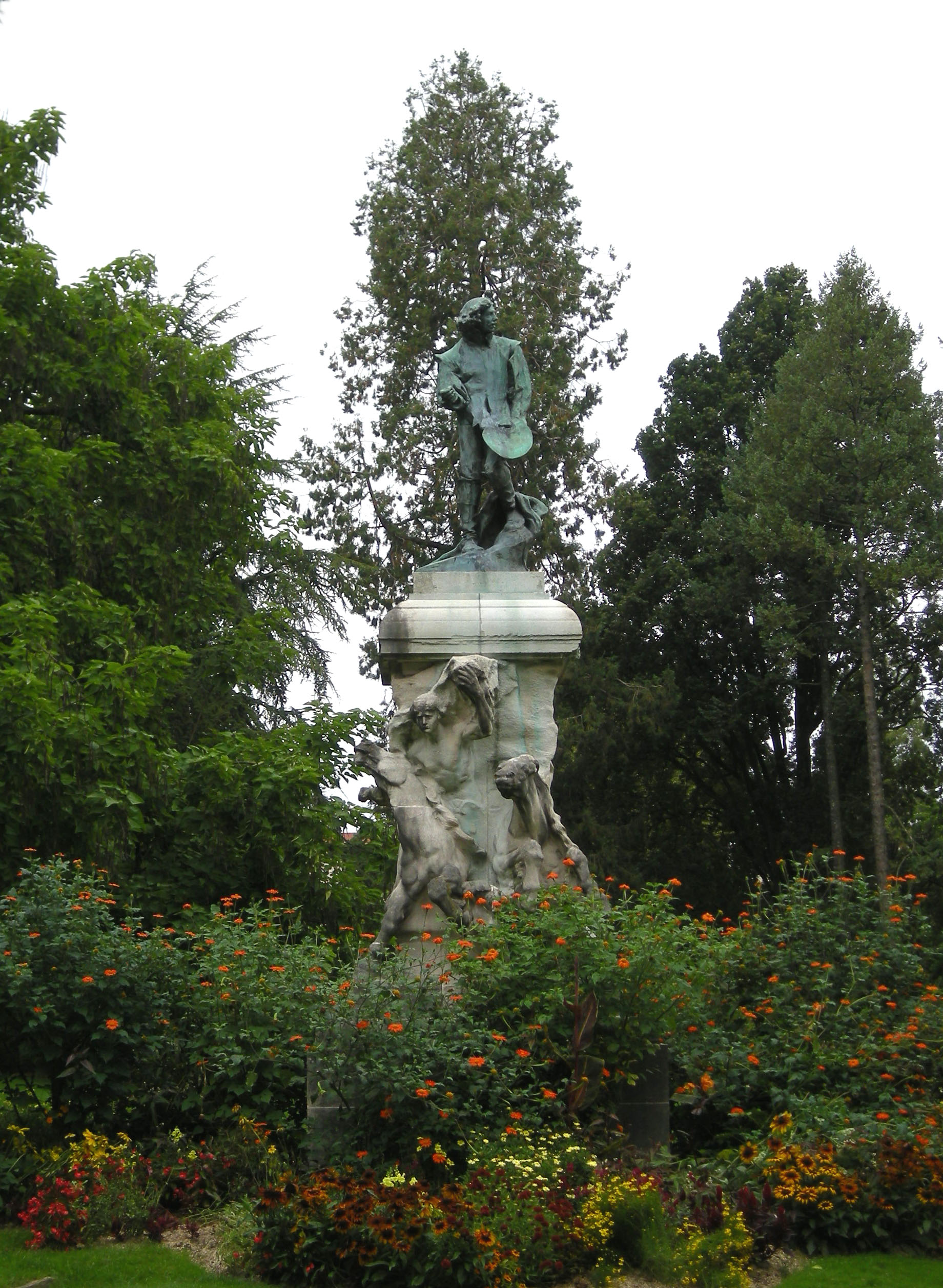 Auguste Rodin (French, 1840-1917): Monument to Claude Gellée, Parc de la Pépinière, Nancy, France.